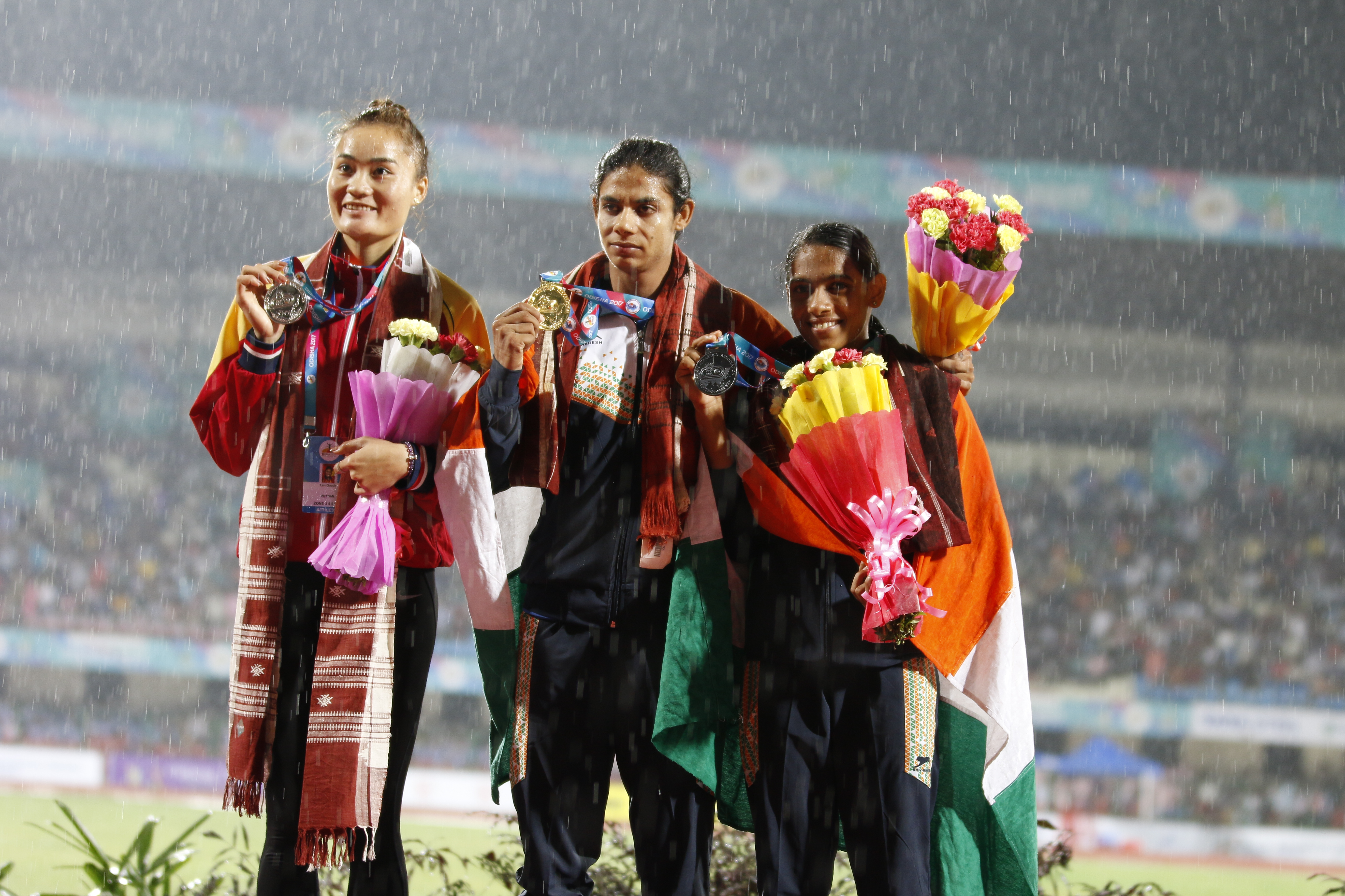 Athletes during 22nd Asian Athletics Championships in Bhubaneswar.